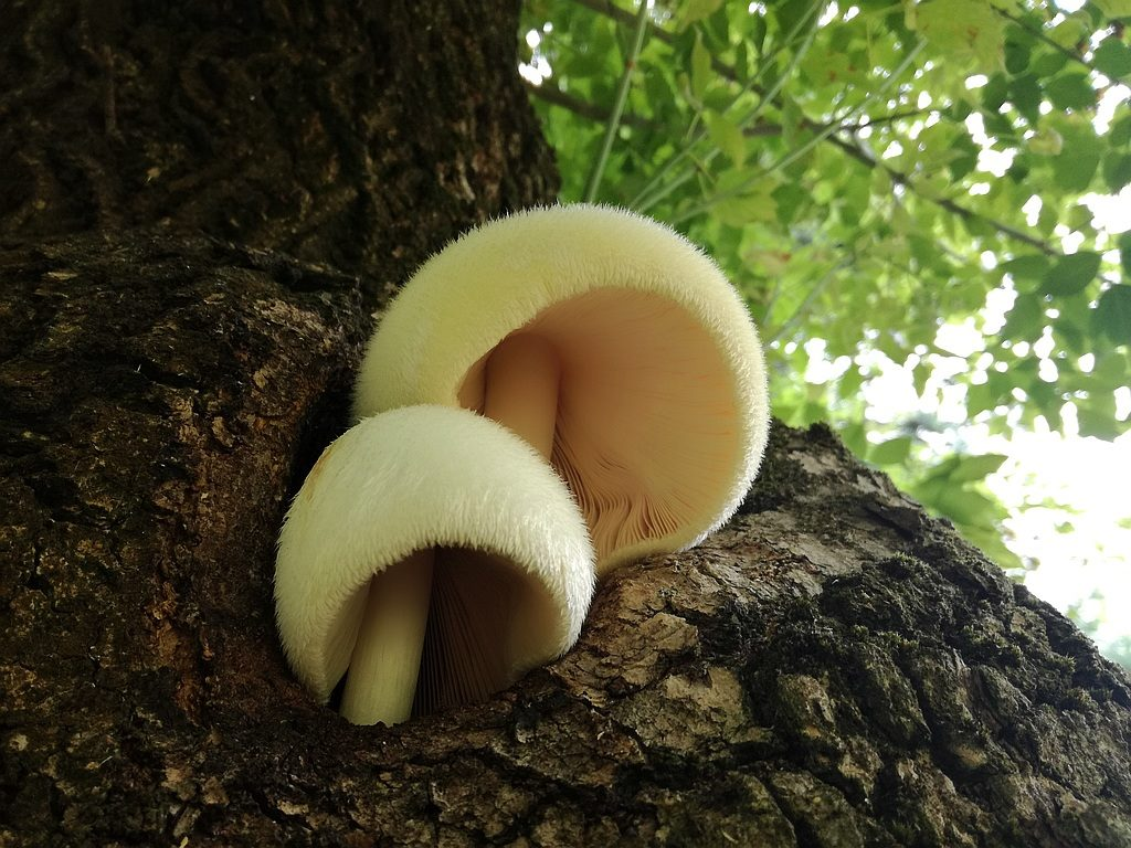 Volvariella bombycina growing in the hollow on tree Acer negundo